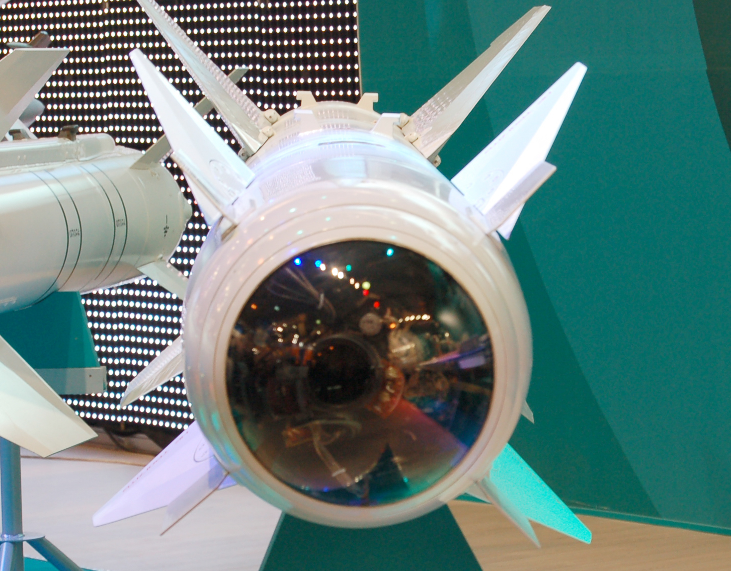 Seeker of Kh-29T missile. MAKS-2009